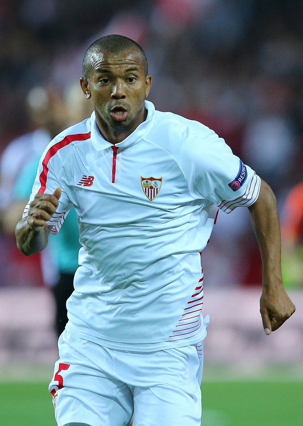 EFA Europa League 2015/16. Semi-finals. Return leg. May 5, 2016. Spain. Seville. Ramon Sanchez Pizjuan. 17 oC. Att: 41,269. Sevilla, Spain 3-1 (1-1) Shakhtar Donetsk, Ukraine Goals: 1-0 Gameiro (9), 1-1 Eduardo (44), 2-1 Gameiro (47), 3-1 Mariano Ferreira (59) Sevilla: Soria, Tremoulinas (Escudero, 74), Rami, Krychowiak, Carriço, Gameiro (Iborra, 82), N'Zonzi, Banega (Cristoforo, 89), Vitolo, Coke (c), Mariano Ferreira Unused subs: Rico, Pareja, Konoplyanka, Llorente Head coach: Unai Emery Shakhtar: Pyatov, Srna (c), Kucher, Rakits’kyy, Ismaily, Stepanenko, Malyshev, Kovalenko, Taison (Bernard, 76), Marlos (Nem, 84), Eduardo (Dentinho, 84) Unused subs: Kanibolotskyi, Kobin, Ordets, Facundo Ferreyra Head coach: Mircea Lucescu Booked: Marlos (11), Rakits’kyy (14) Kucher (20), Banega (30), Srna (48), Eduardo (61), Stepanenko (76), Vitolo (87), Ismaily (90) Referee: Bjorn Kuipers (Netherlands)